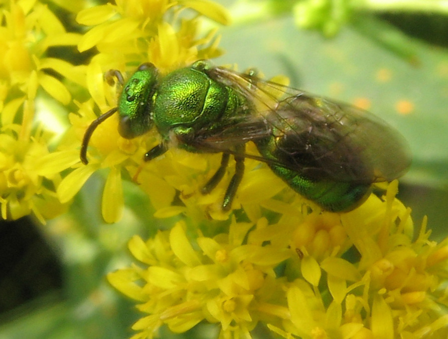 Augochloropsis metallica male. Size: 8 mm. Pennypack Restoration Trust, Montgomery County, Pennsylvania, USA.